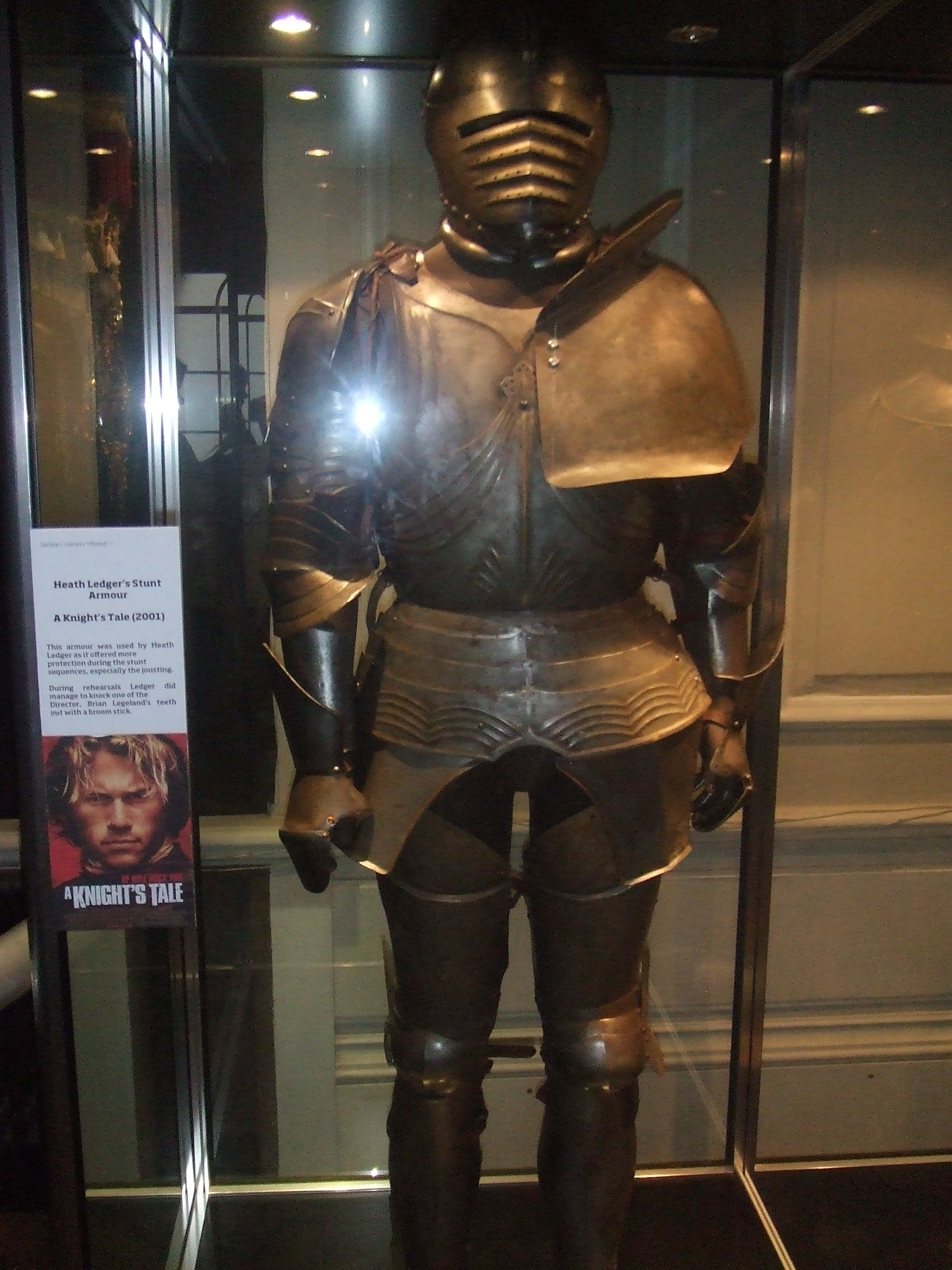 Costume from the film A Knight's Tale displayed at the London Film Museum.